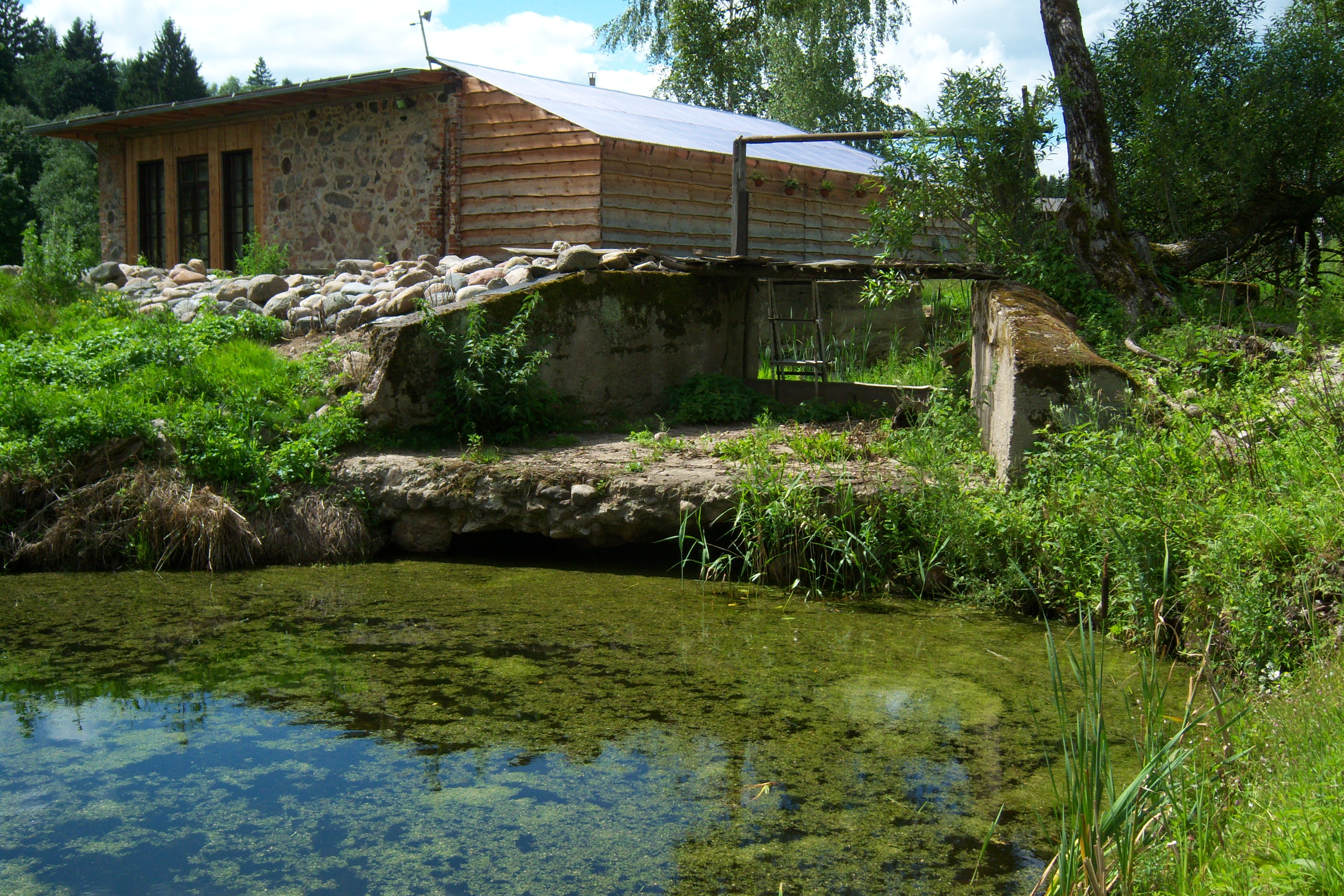 Watermill's remains in Tadarava, Kaišiadorys district, Lithuania